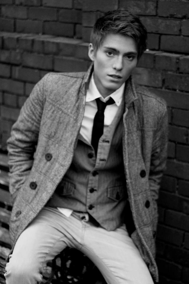 Travis Flores, by Cleo Childress Photography